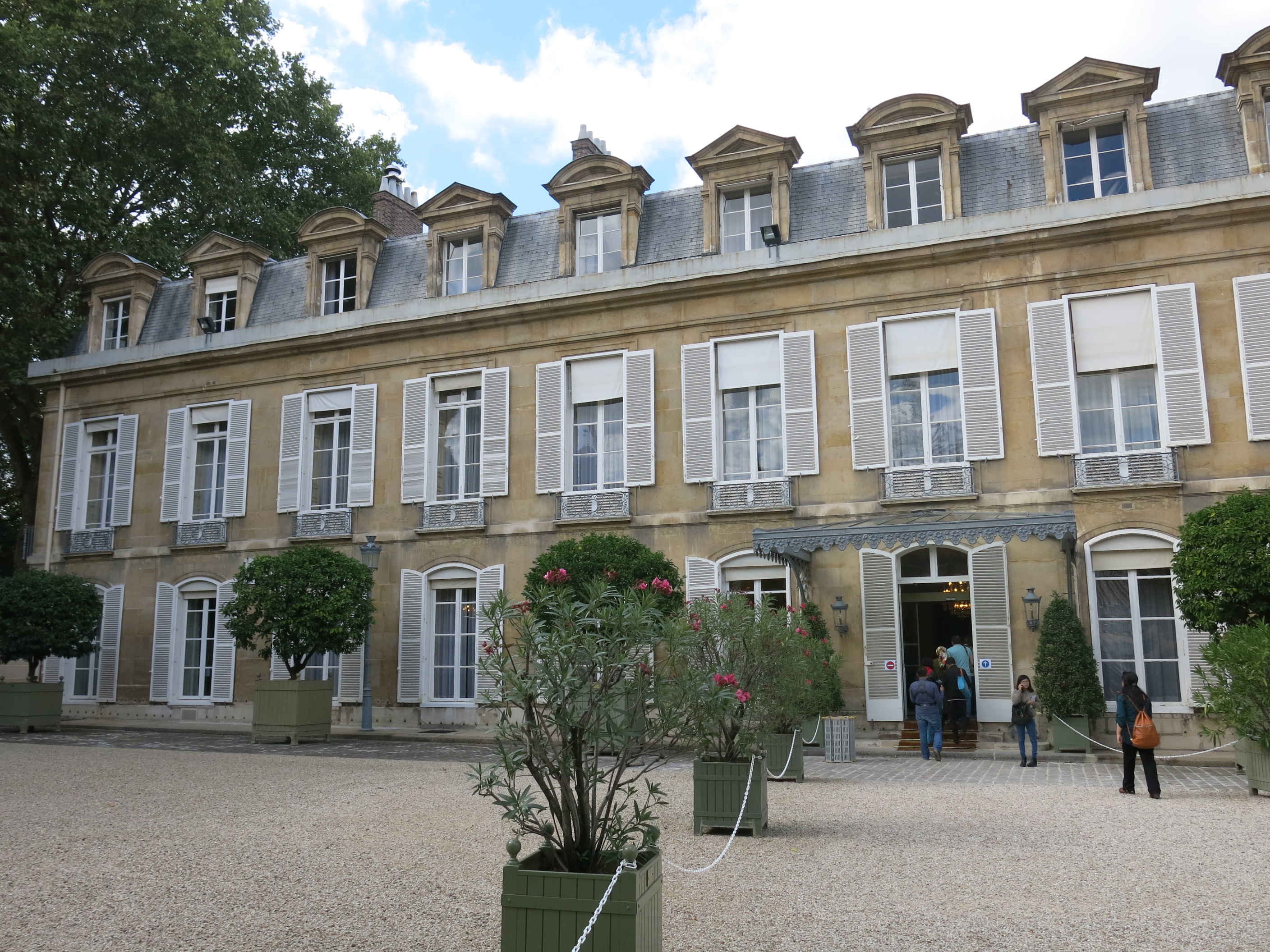 Western building of the Petit Luxembourg (Paris, France).